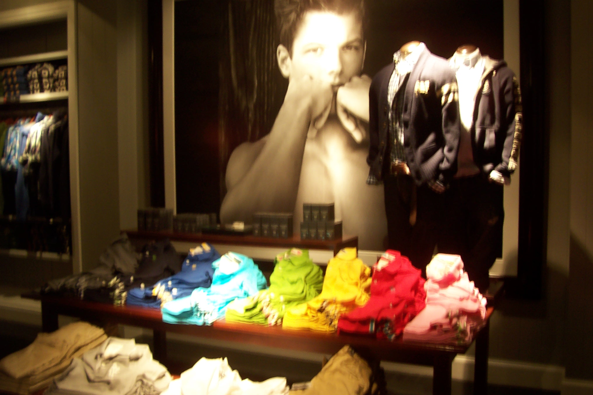 This is a shot from inside Abercrombie & Fitch at Arbor Place Mall, Douglasville, Georgia. The clothing (on the table)featured is from the pre-Spring collection 2011. The gray boxes are FIERCE cologne. The marketing photograph is from Christmas "Naughty or Nice?" 2010 and is by photographer Bruce Weber. Merchandise on the far left is from Christmas 2010.